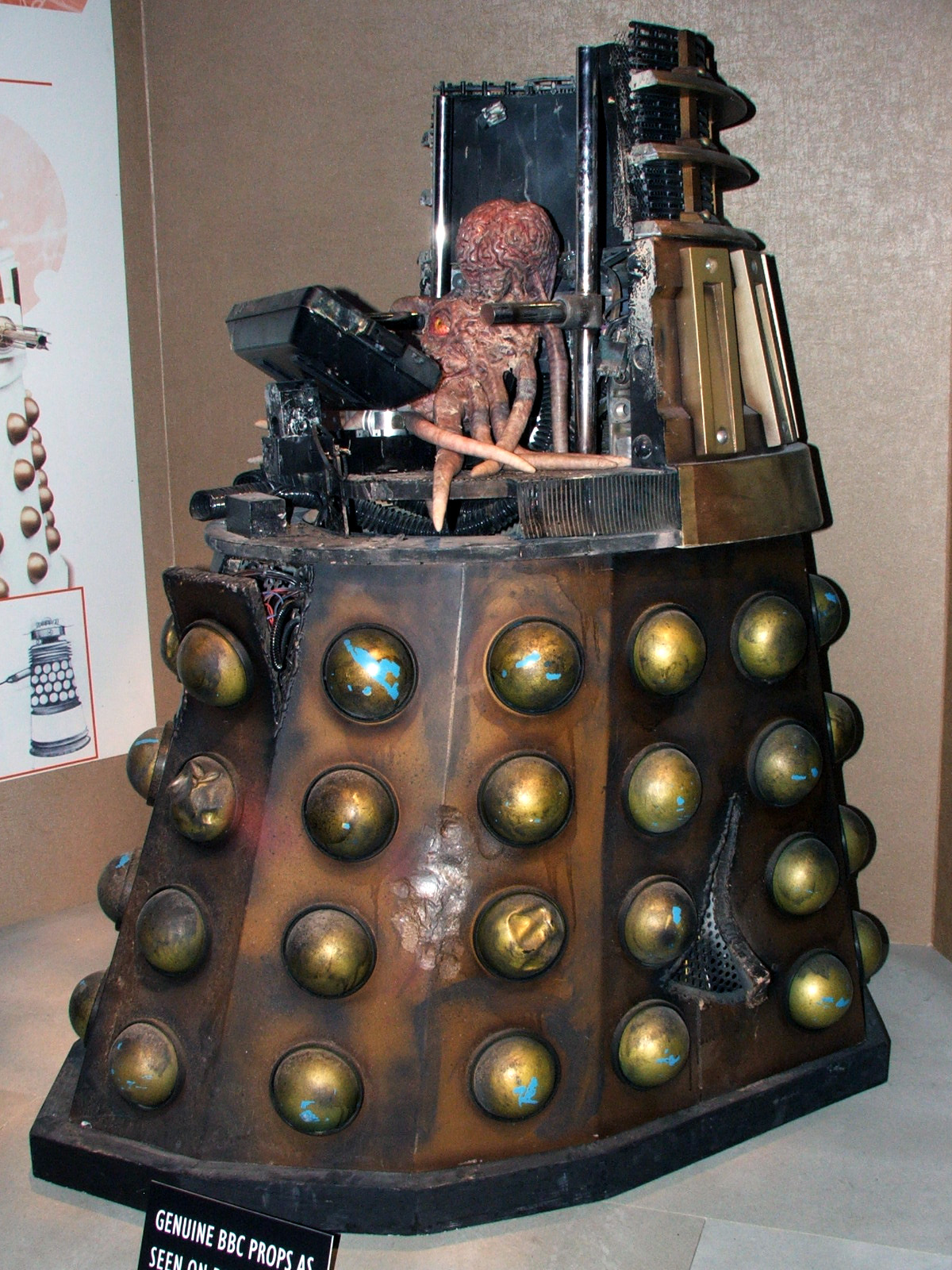 260506-033 Doctor Who Experience